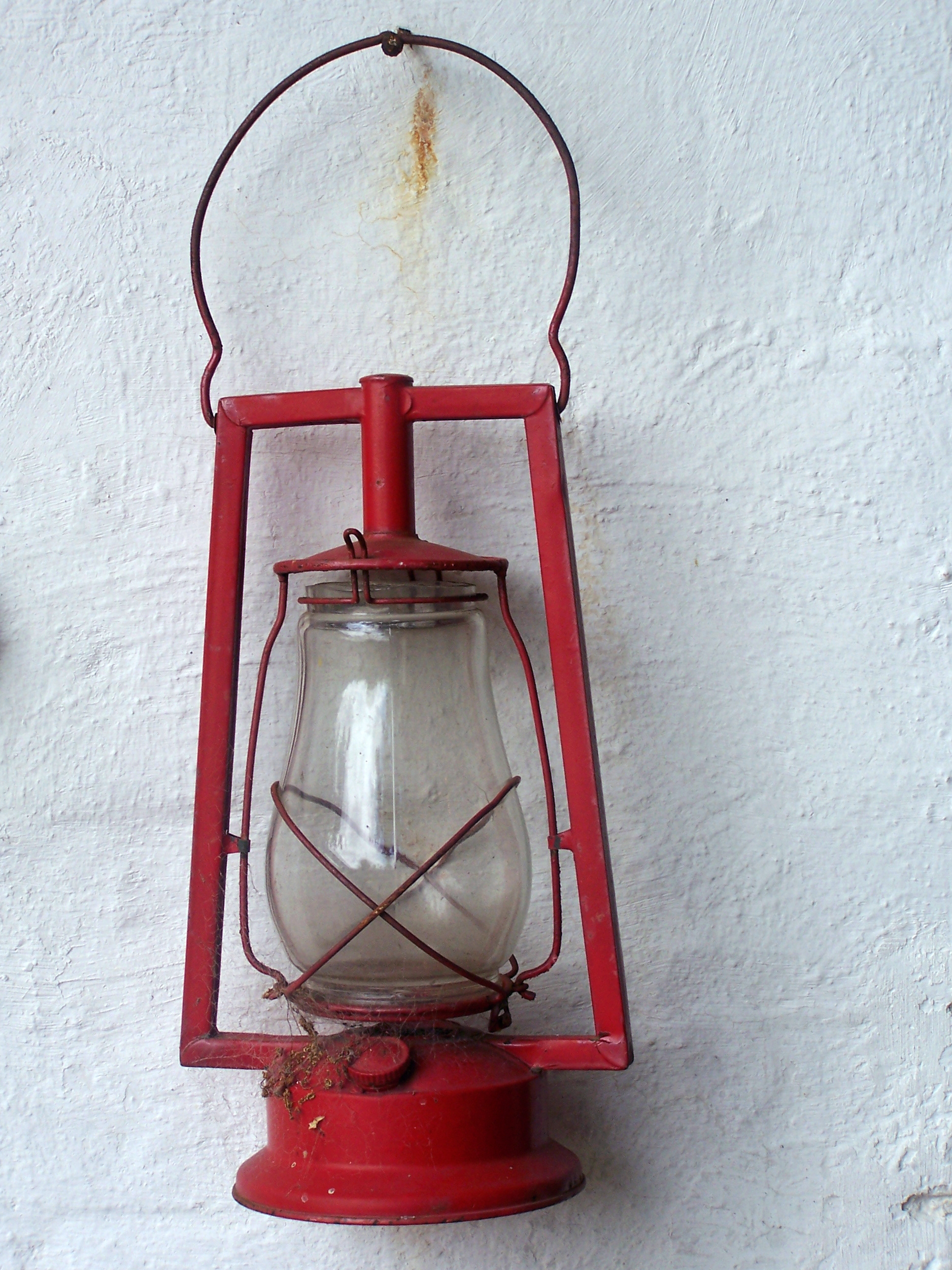 Tranby House kerosene lamp